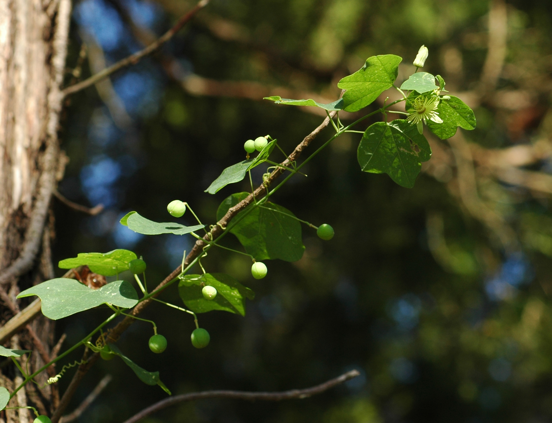 How the fruit is carried on the stem.